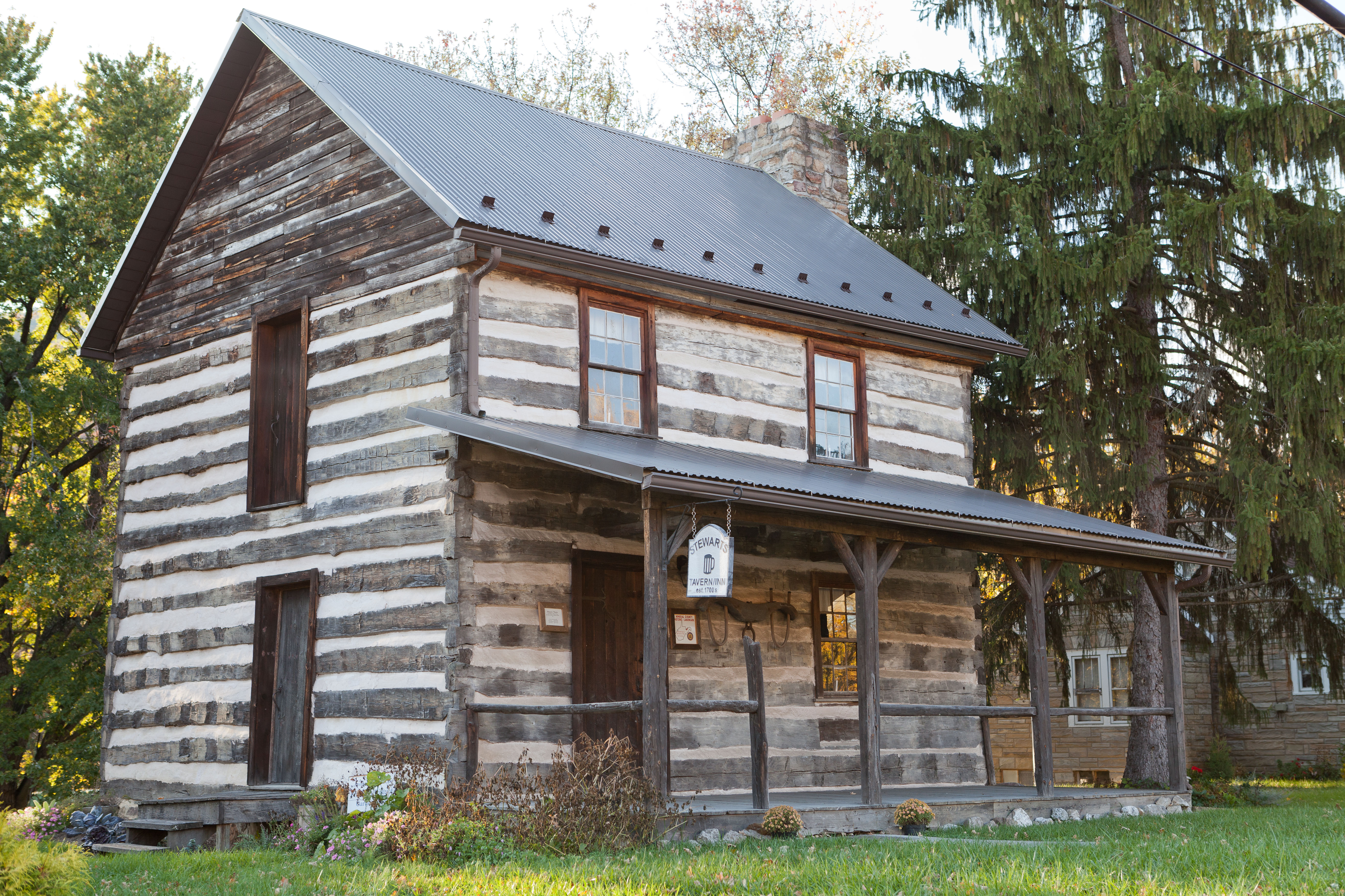 Stewart's Tavern, near Short Gap, Mineral County, West Virginia Object location39° 32′ 38″ N, 78° 48′ 44″ W